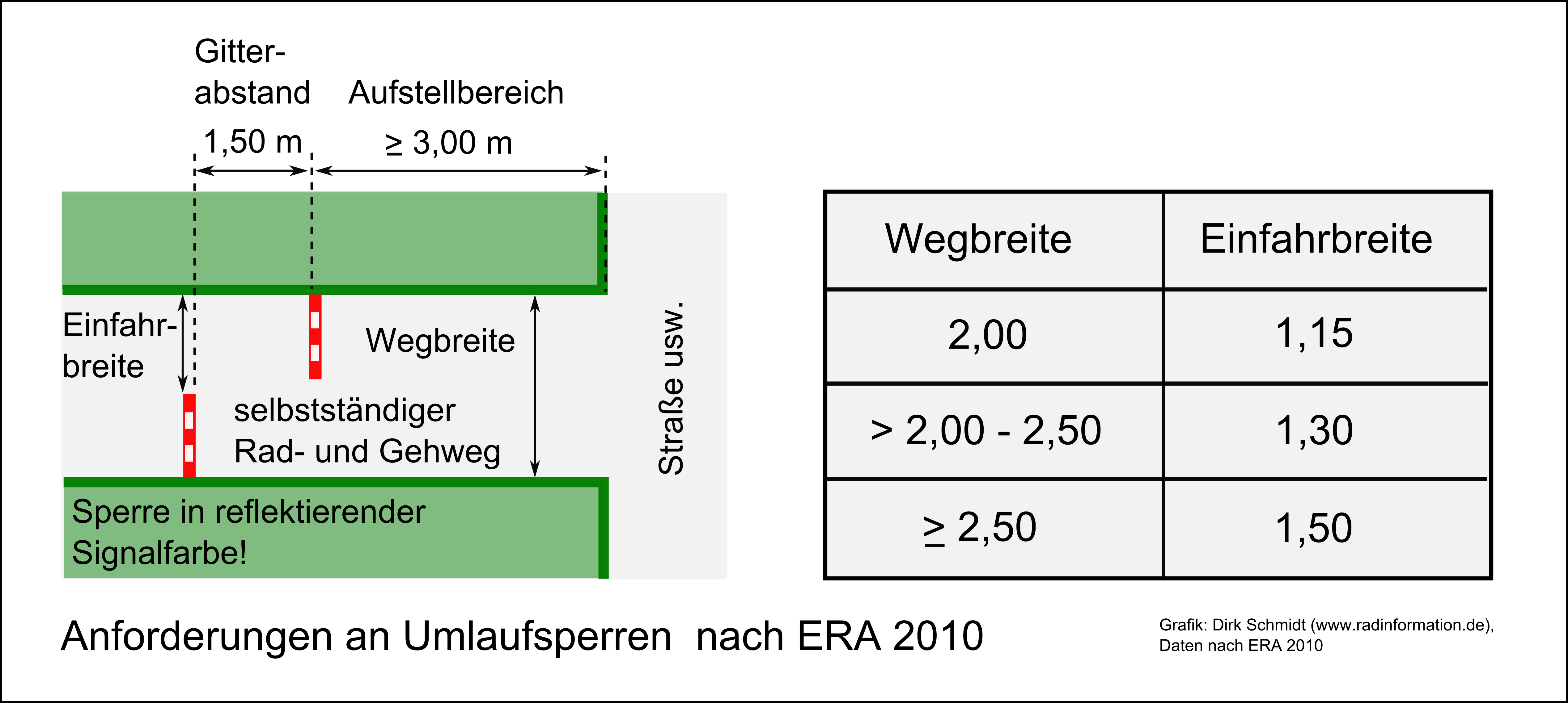 requirements at bikeway chicanes after ERA 2010 (German Recommendations for cycling facilities)